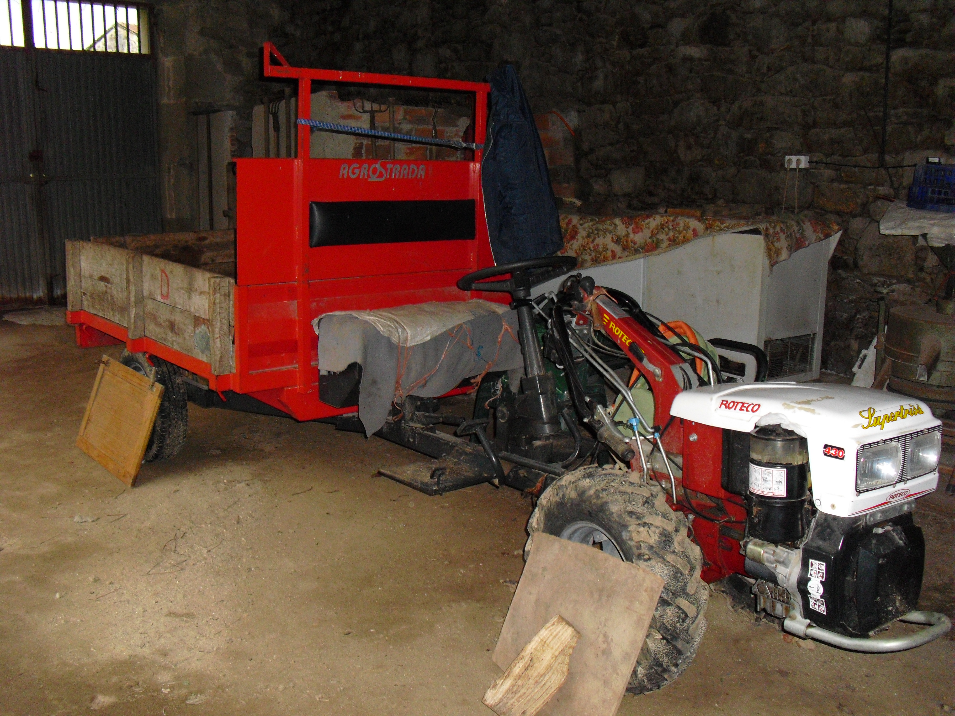 Roteco Supertriss 430 walking tractor with Agrostrada trailer.